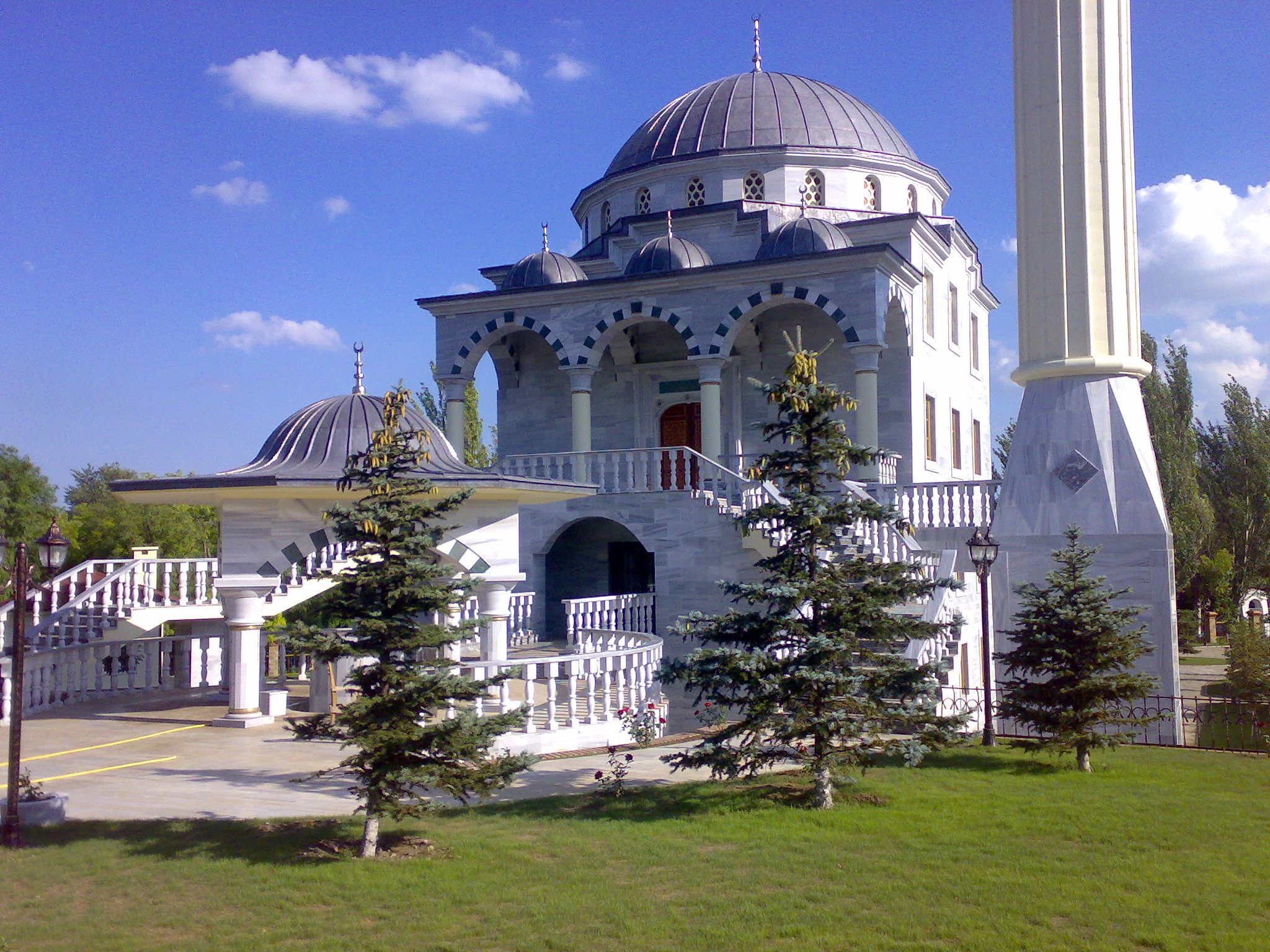 Mosque at Mariupol built by Mr. Salih Cihan